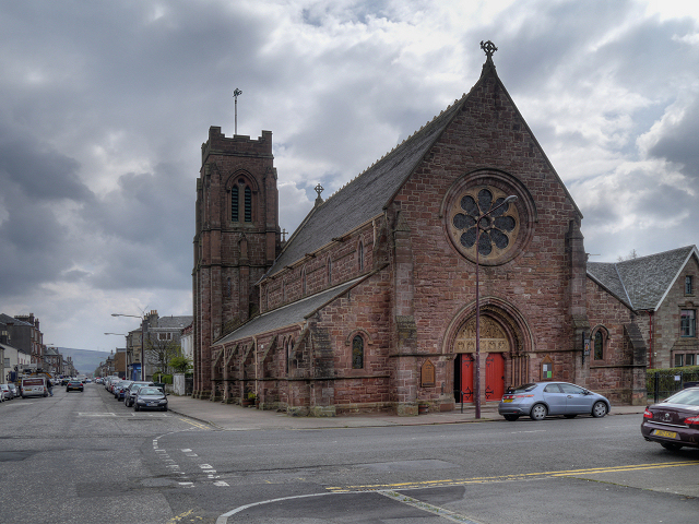 The Church of St Michael and All Angels